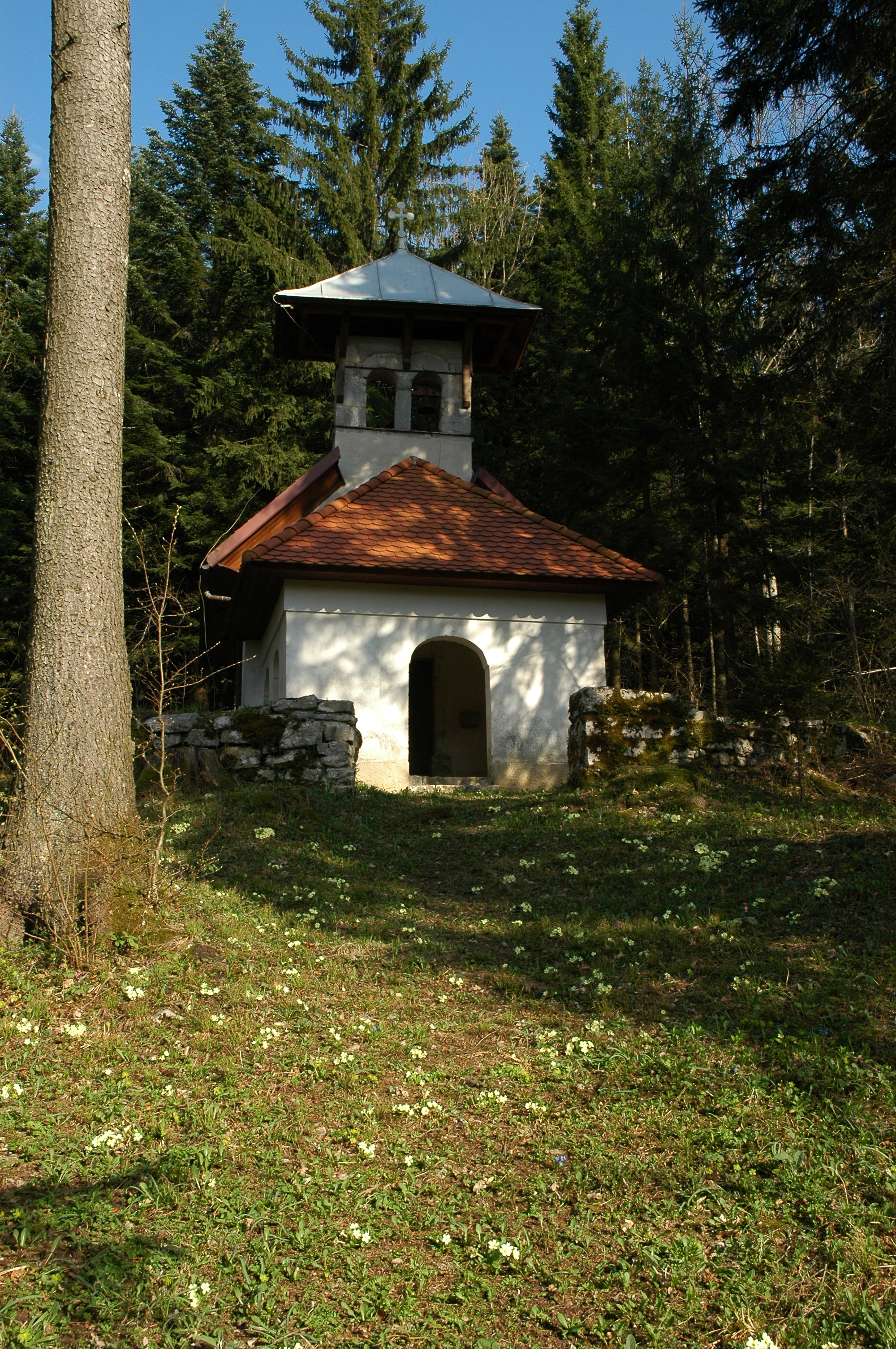 St Pancratius church in Klance, Slovenia